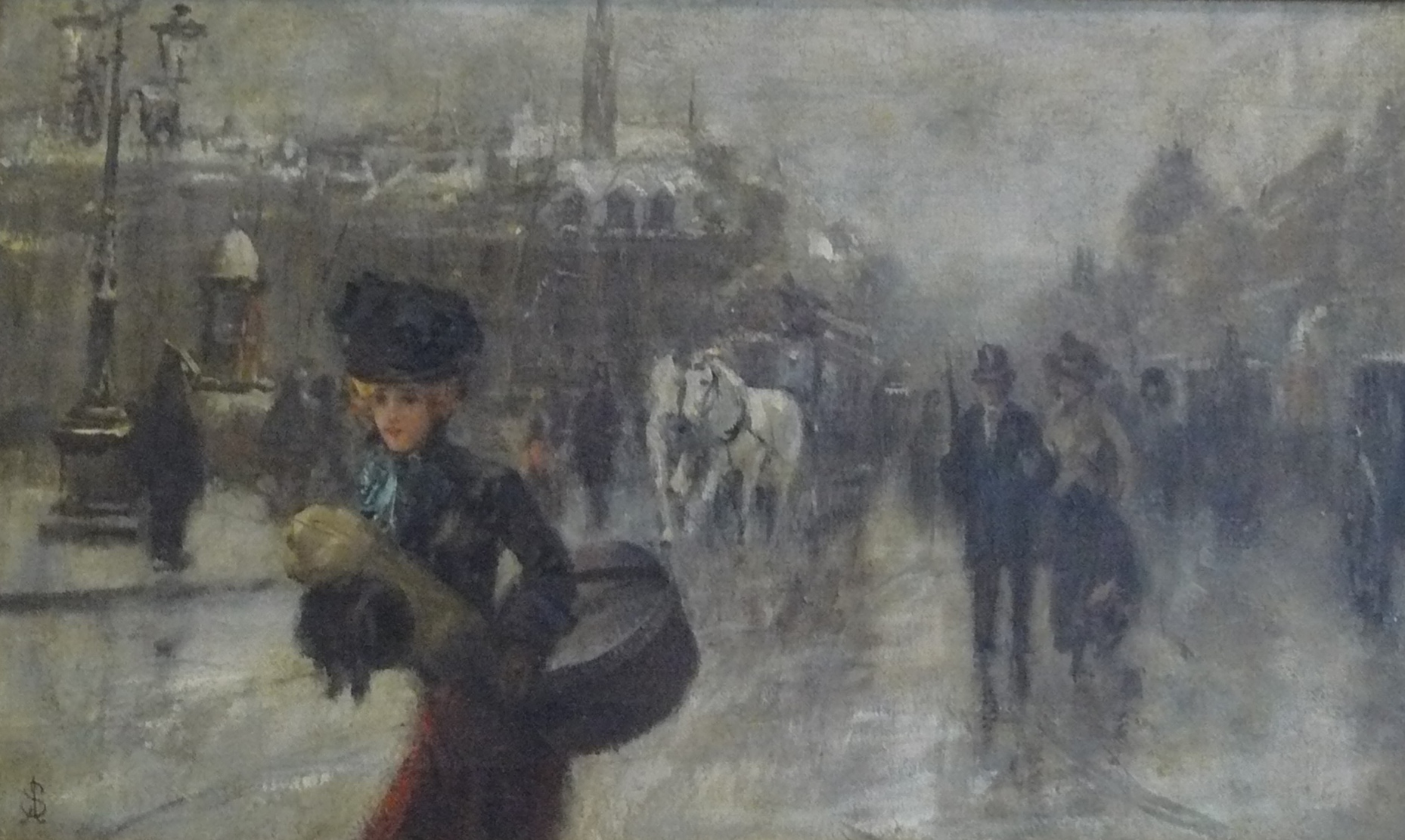 Original Photograph of Oil Painting "Elégants sur les Boulevards" by Alfred Stevens (owned by myself and purchased form Cosmopolitan Art Gallery La Jolla, CA, USA)